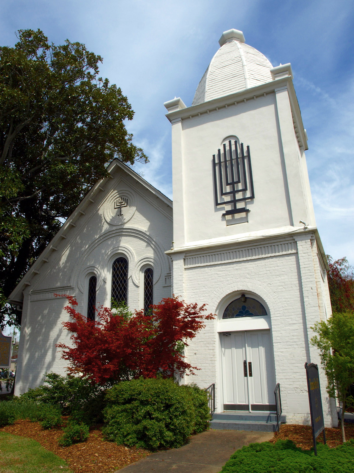 Temple Beth-El in Anniston, Alabama, listed on the National Register of Historic Places